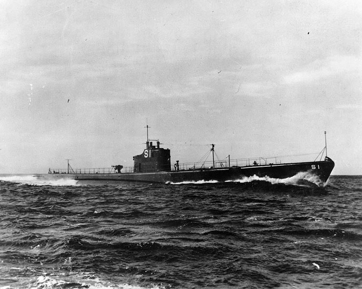 USS Salmon (SS-182), 1938. Removed caption read: Photo # NH 63417 USS Salmon (SS-182) running speed trials, 1938